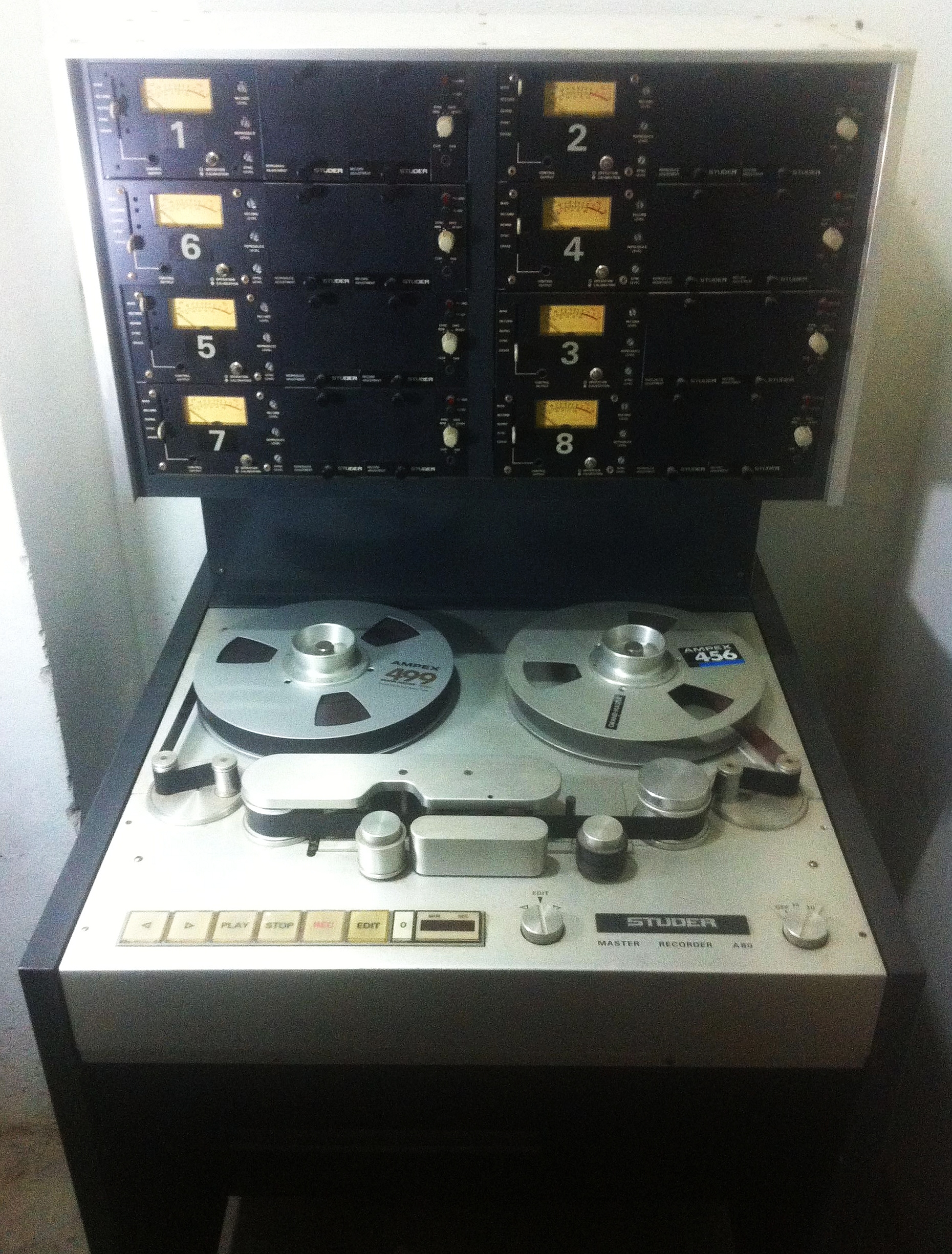 Studer A80 eight-track recorder VU MK II.